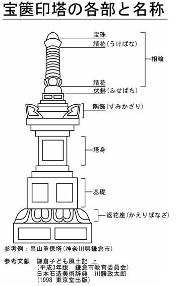 Stone Pagoda lantern drawing — Kamakura/Muromachi periods, Japan.